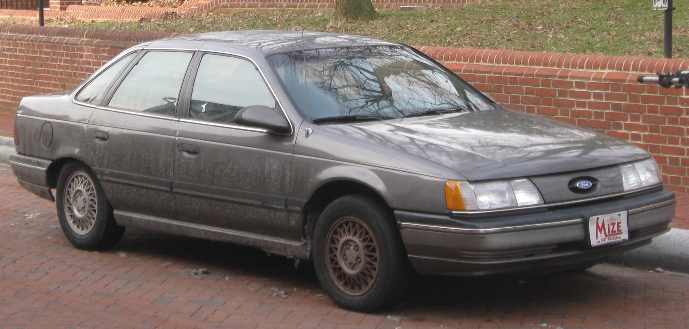 Ford Taurus photographed in Annapolis, Maryland, USA.